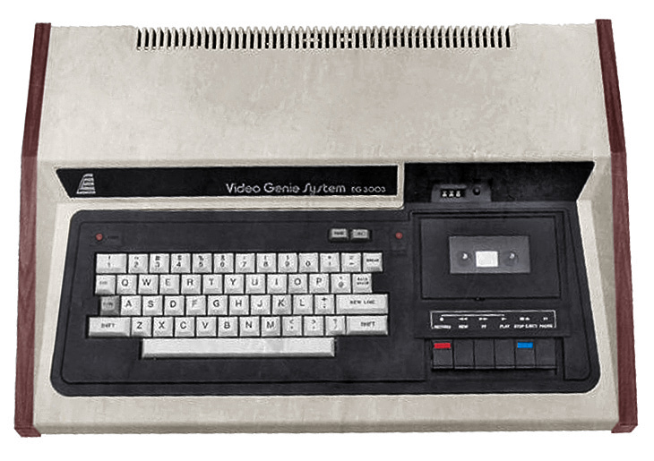 EACA Video Genie computer (AKA Genie I). This image has been artificially colourised as accurately as possible, but don't take it as gospel.